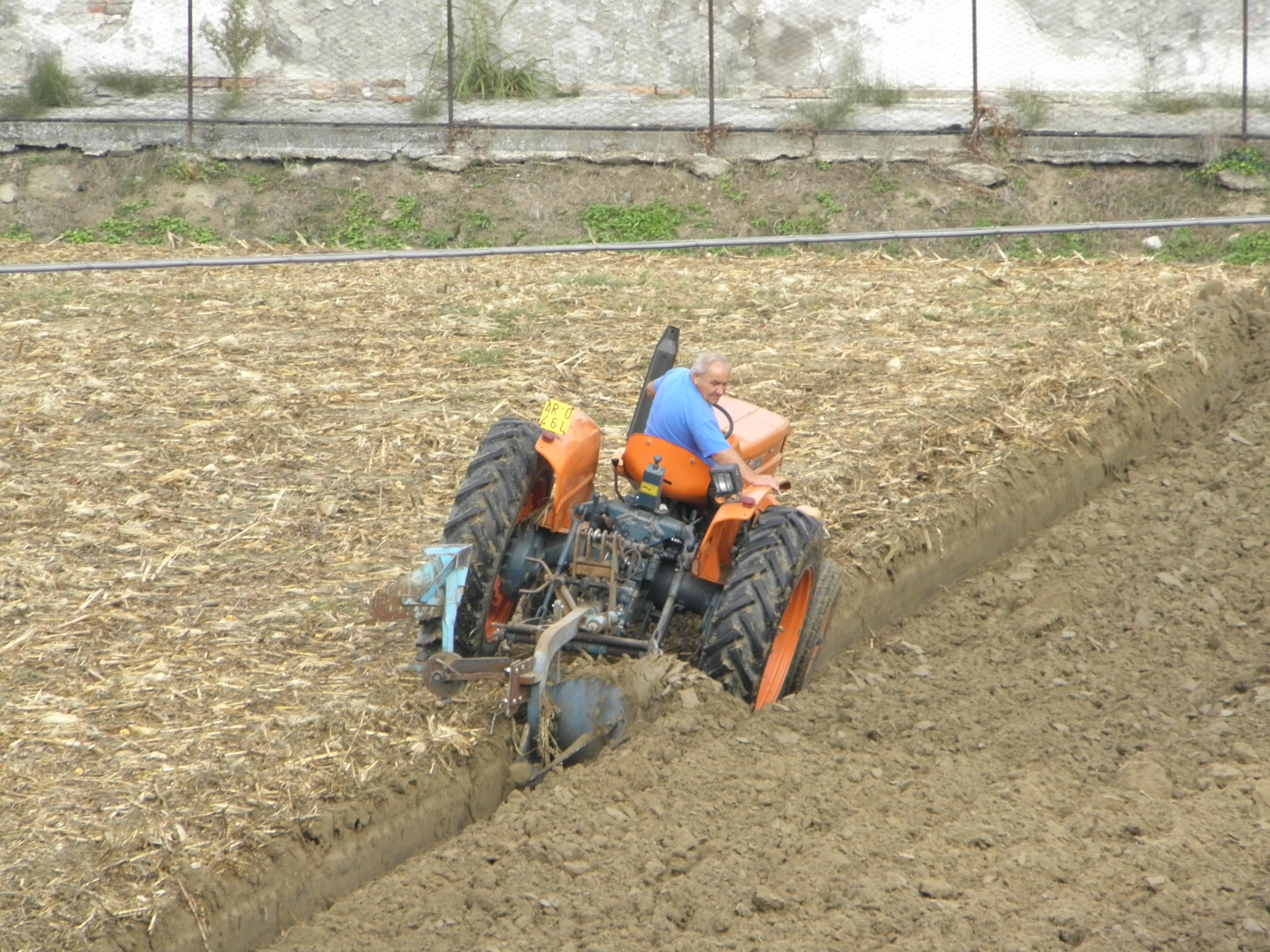 Tillage in Guarda Veneta, province of Rovigo.